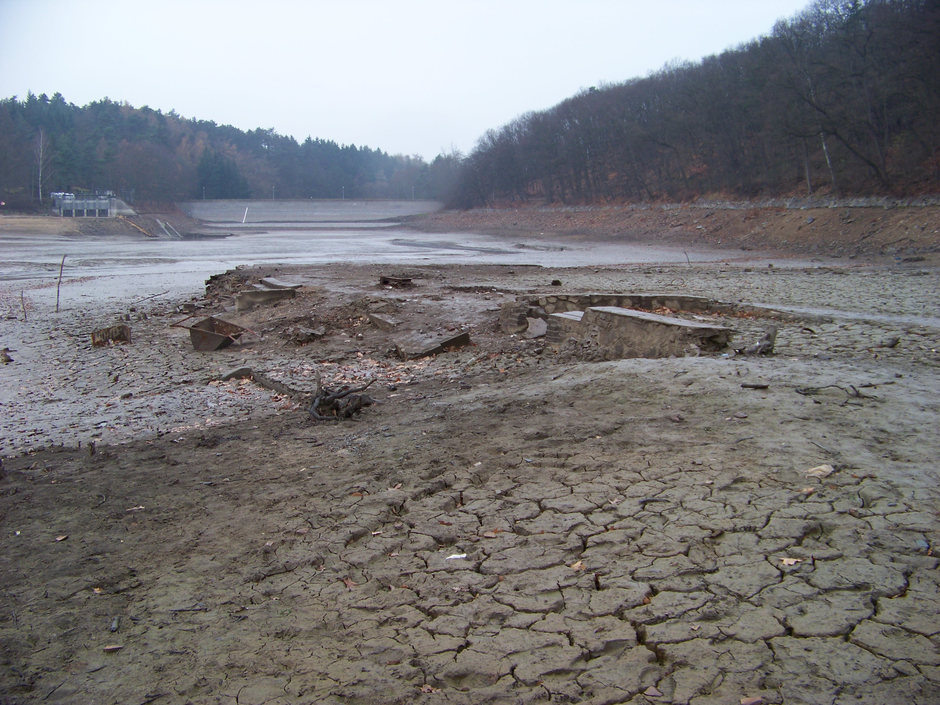 Prague-Hostivař, the Czech Republic. Emptied Hostivař Reservoir, remains of Moucha's Mill.